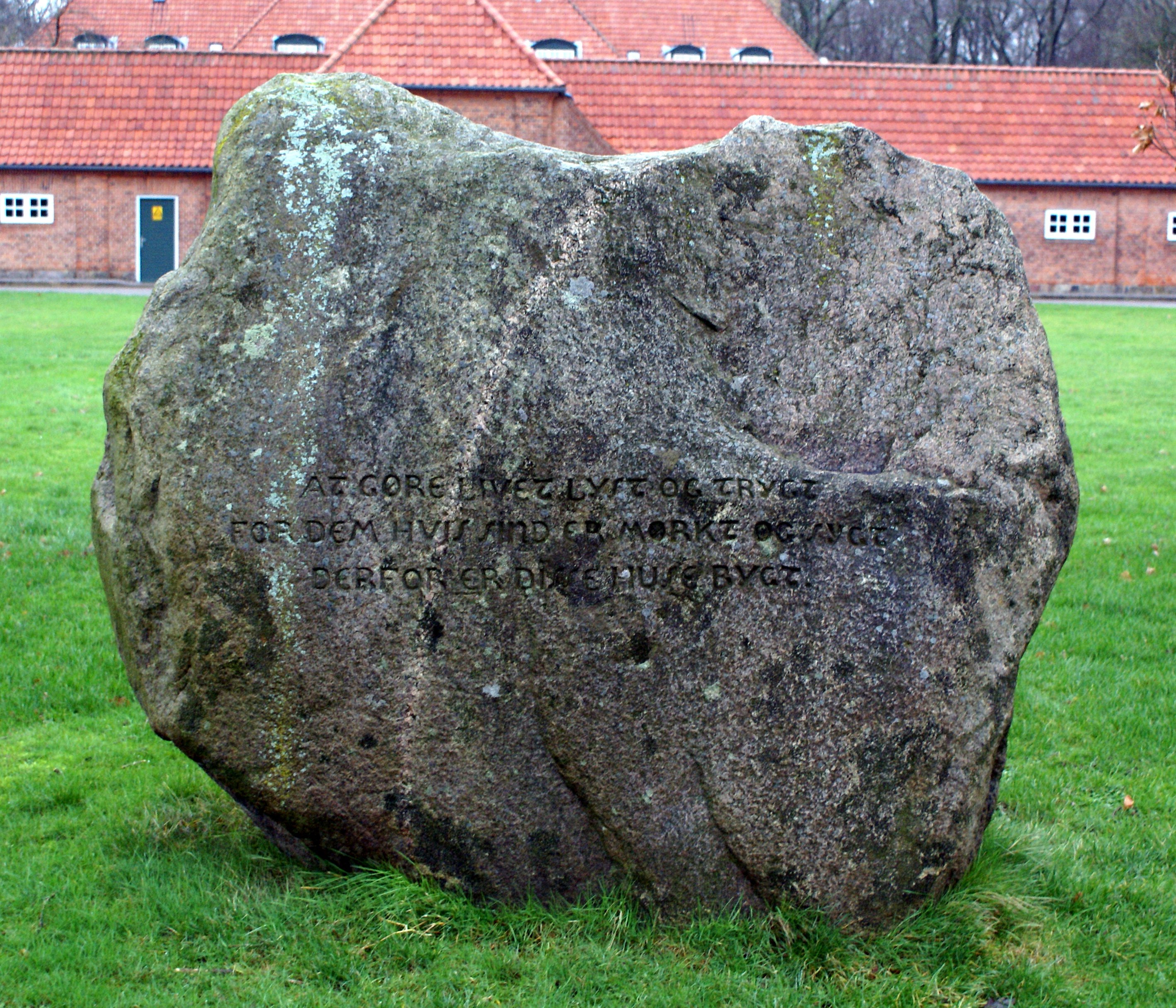 Stone with inscription by Frode Krarup. Placed in Grønnegård.